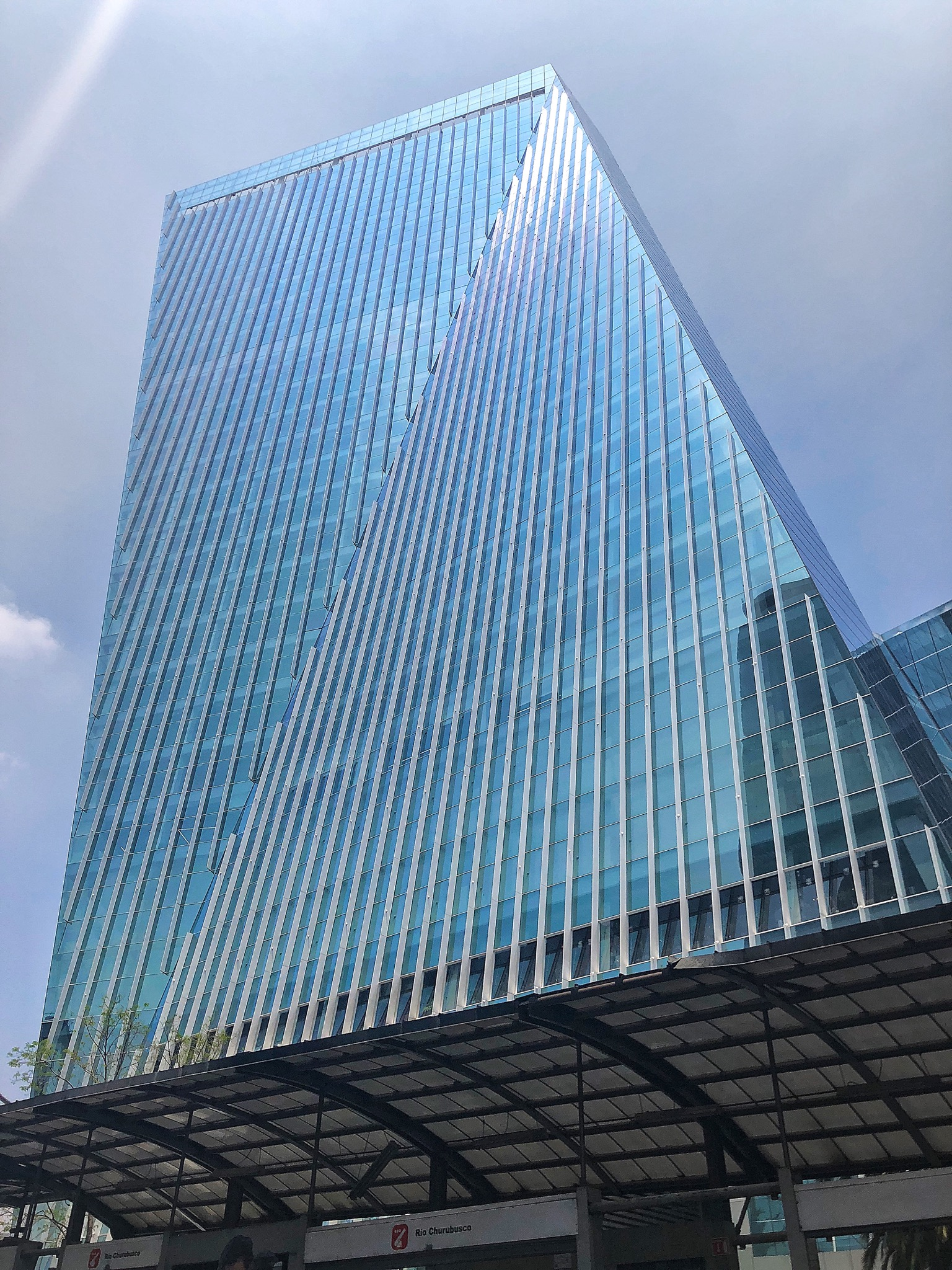 Manacar tower